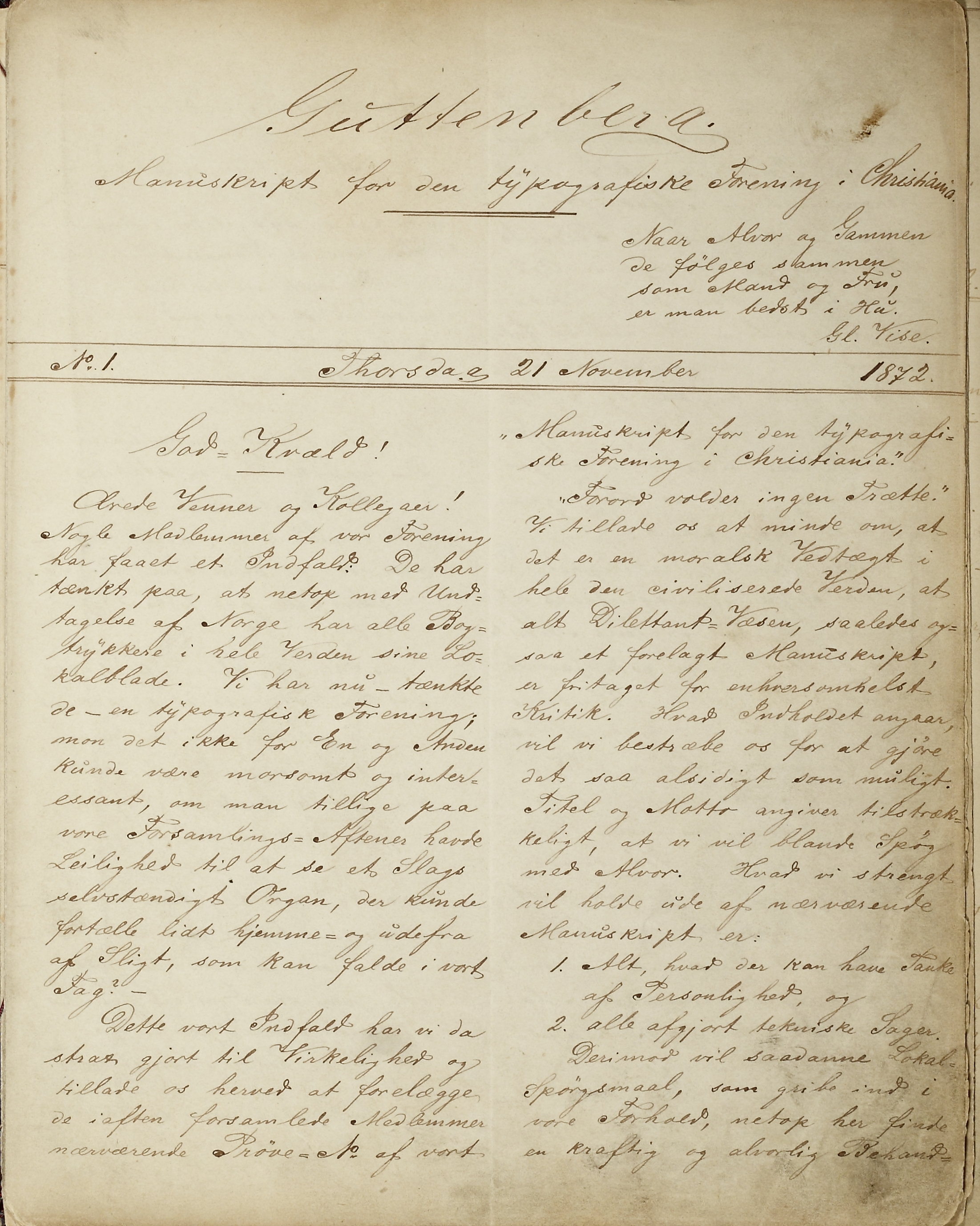 Guttenberg handwritten magazine for the typographical union in Christiania (Oslo)page 1 of number 1 published 21st november 1872